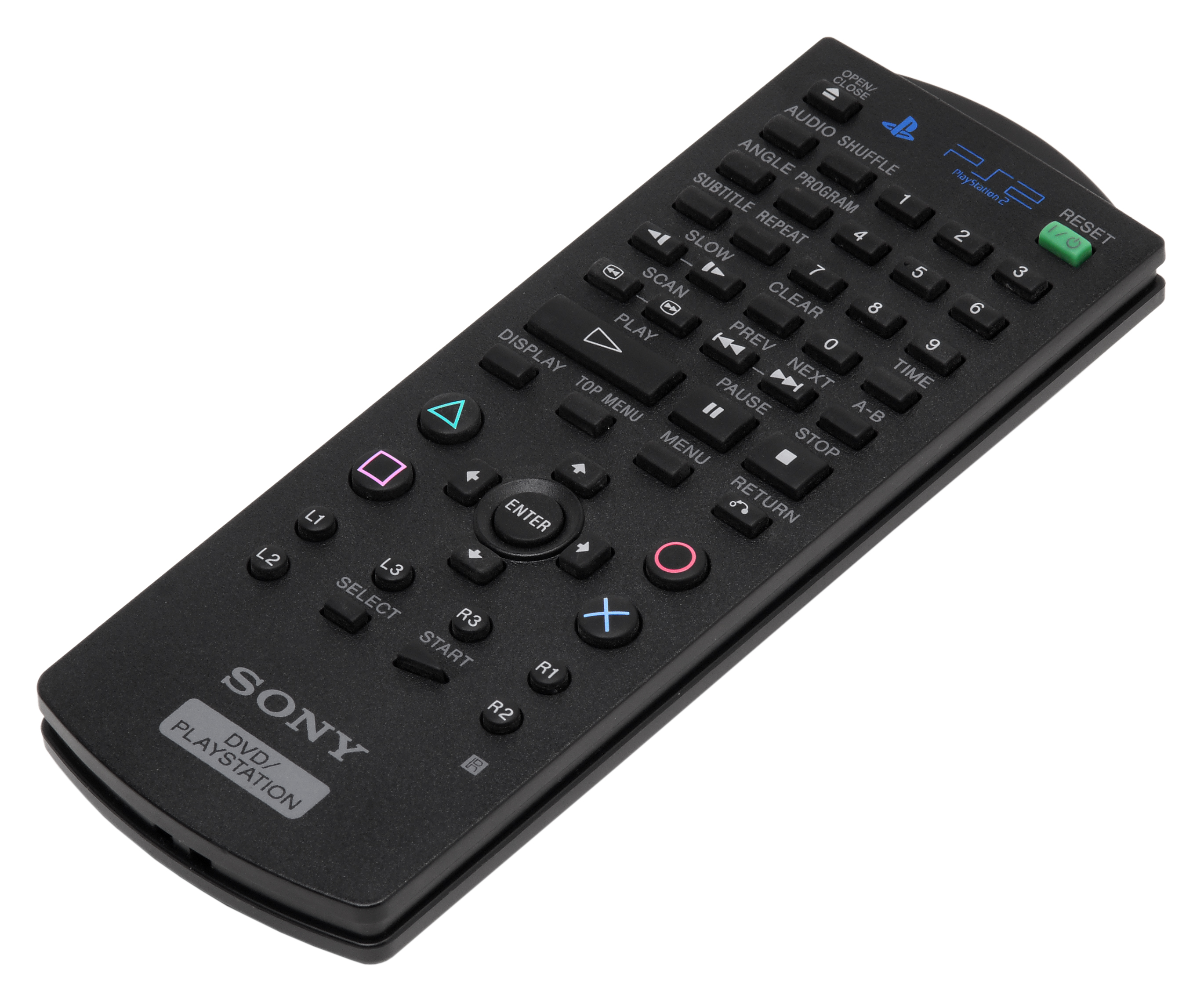 The second-generation official PS2 DVD remote control. Compared to its predecessor, it adds Power and Eject buttons.